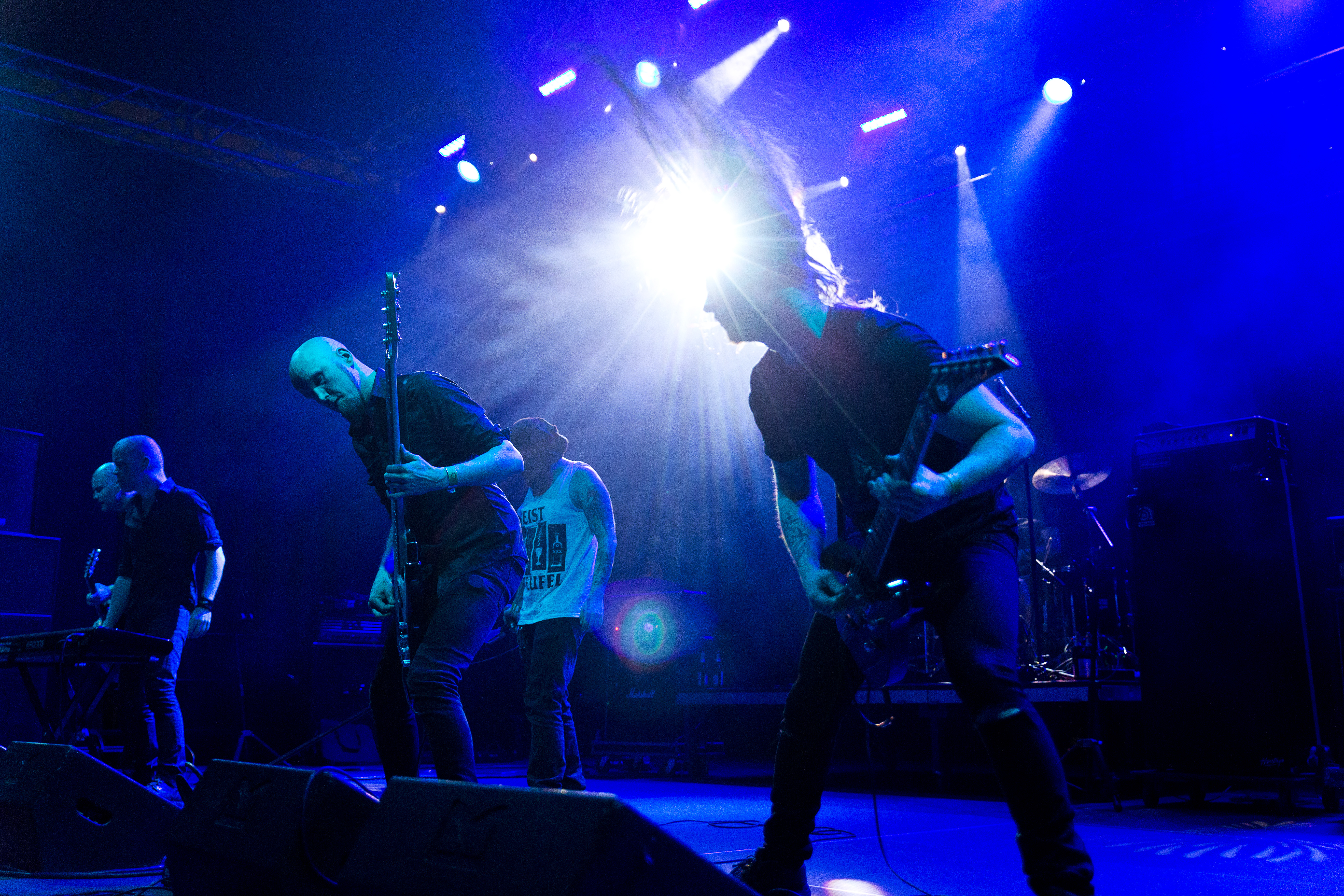 The Finnish melodic death/doom metal band Swallow the Sun at the 25. Wave-Gotik-Treffen 2016 in Leipzig/Germany.